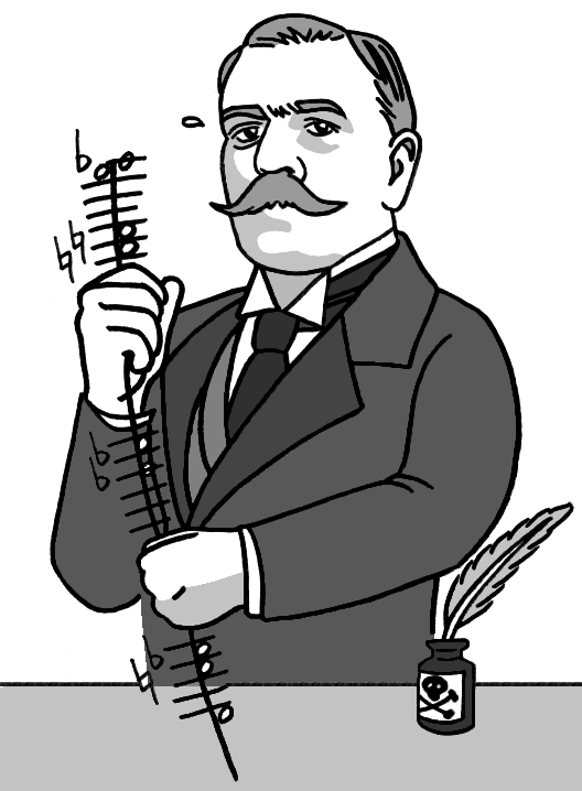 Caricature of Octave Mirbeau straightening the "Grandmother agreement", the inkstand before him labeled "poison"